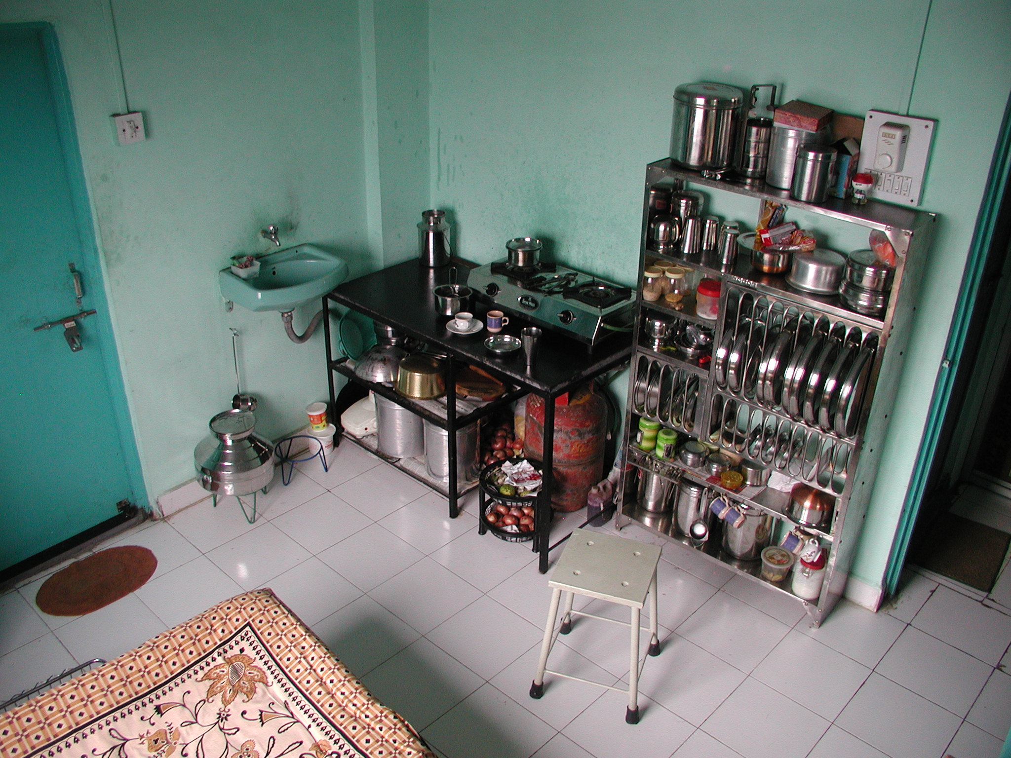 Cuisine in Indian household